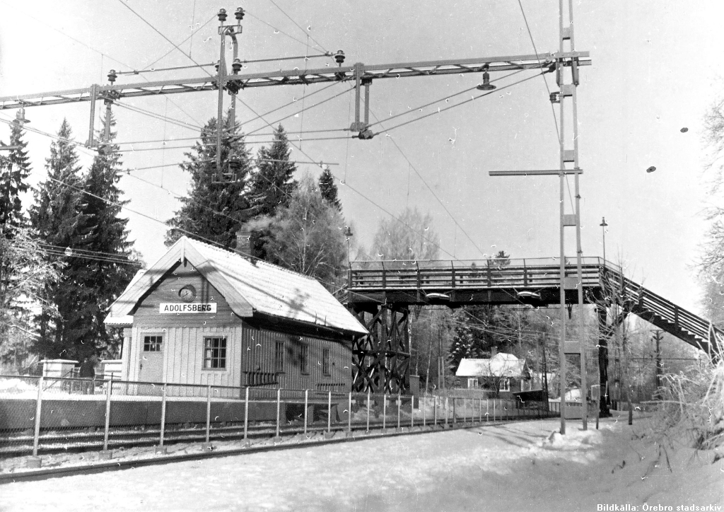 The halt at Adolfsberg, State railway Hallsberg-Örebro